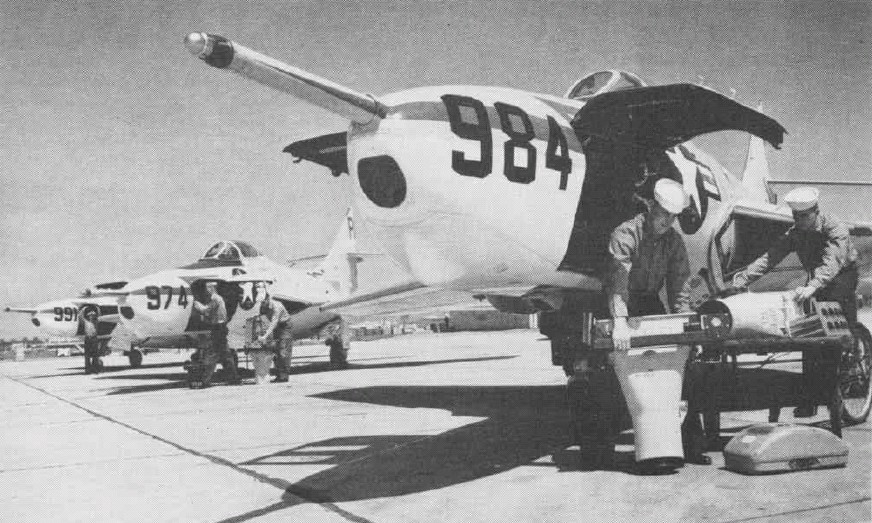 Installing cameras on U.S. Navy Grumman F9F-8P Cougar reconnaissance planes in 1958.